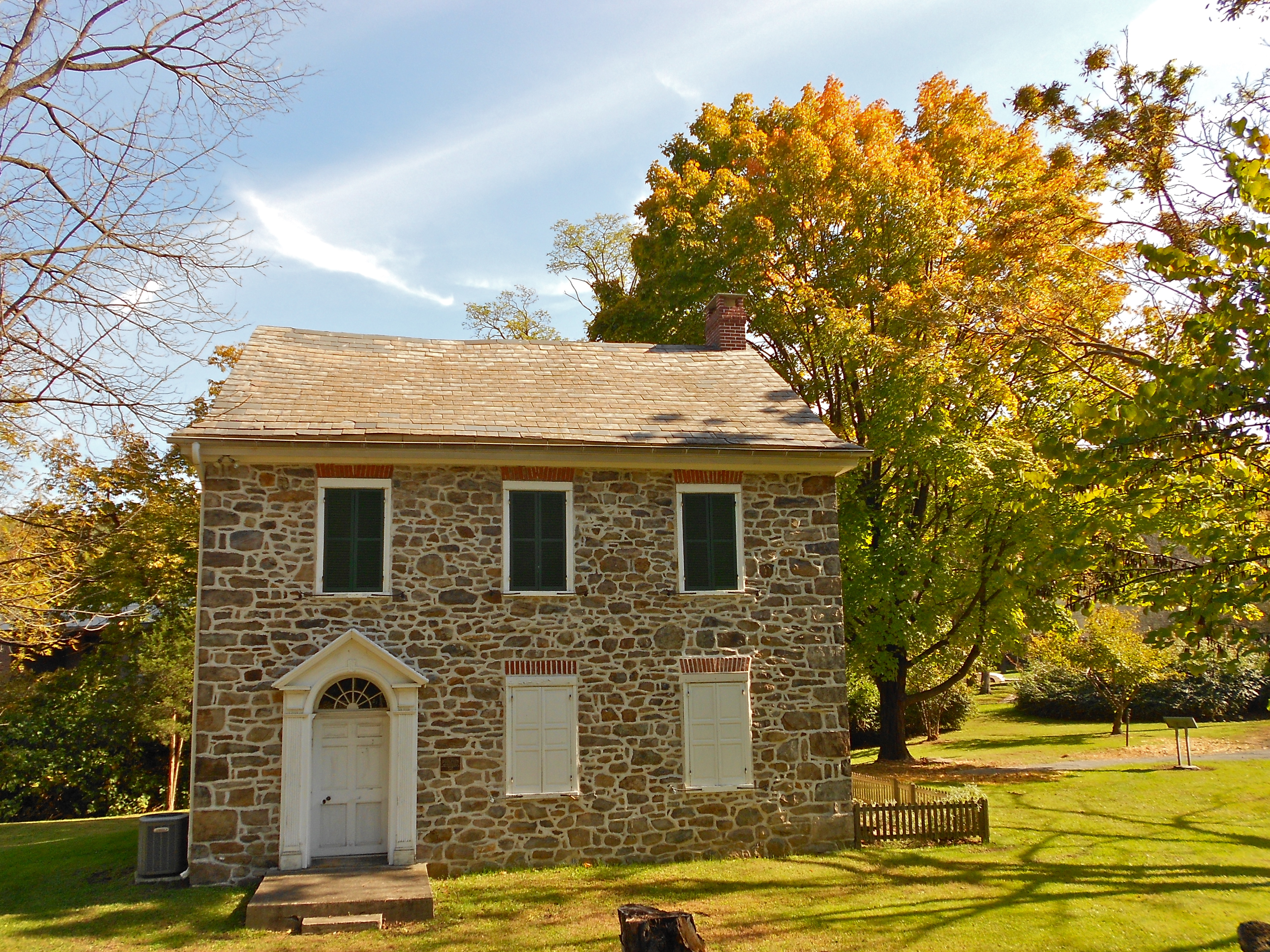 Jacob Jr. Ehrenhardt House on the NRHP since 2003. At 55 South Keystone Avenue (south of the Railroad tracks, near the Rodale HQ building, Emmaus, Lehigh County, Pennsylvania